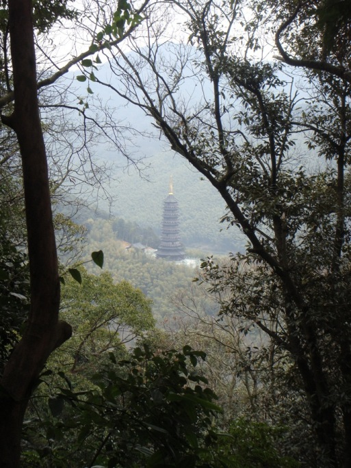 Tiantong State Forest Park in Ningbo, China